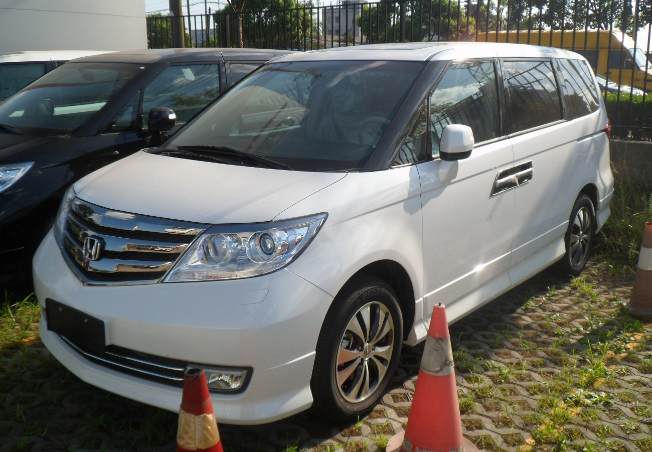 Honda Elysion photographed in Shanghai, China.